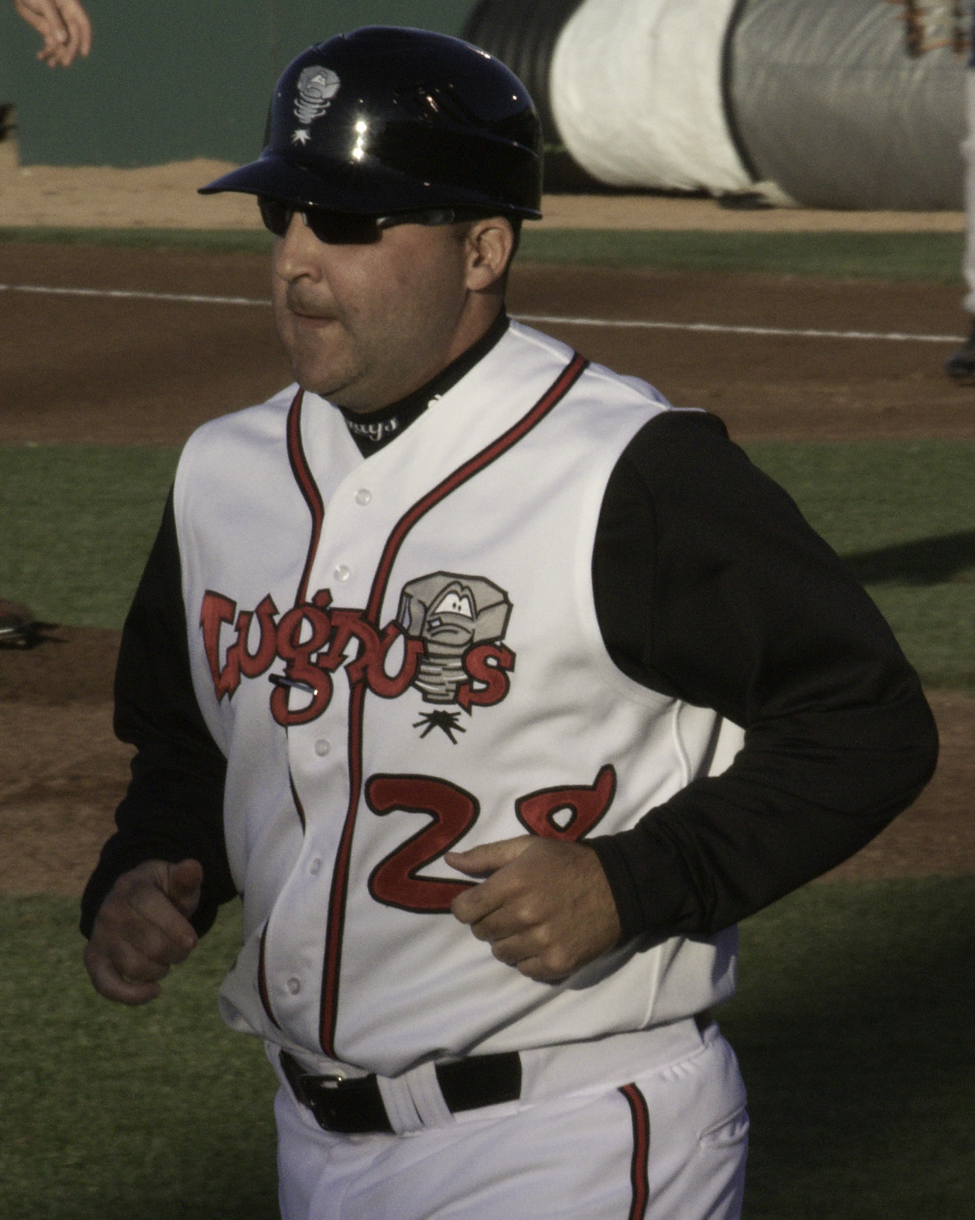 John Tamargo, manager of the Lansing Lugnuts, during a 2012 game against the Great Lakes Loons